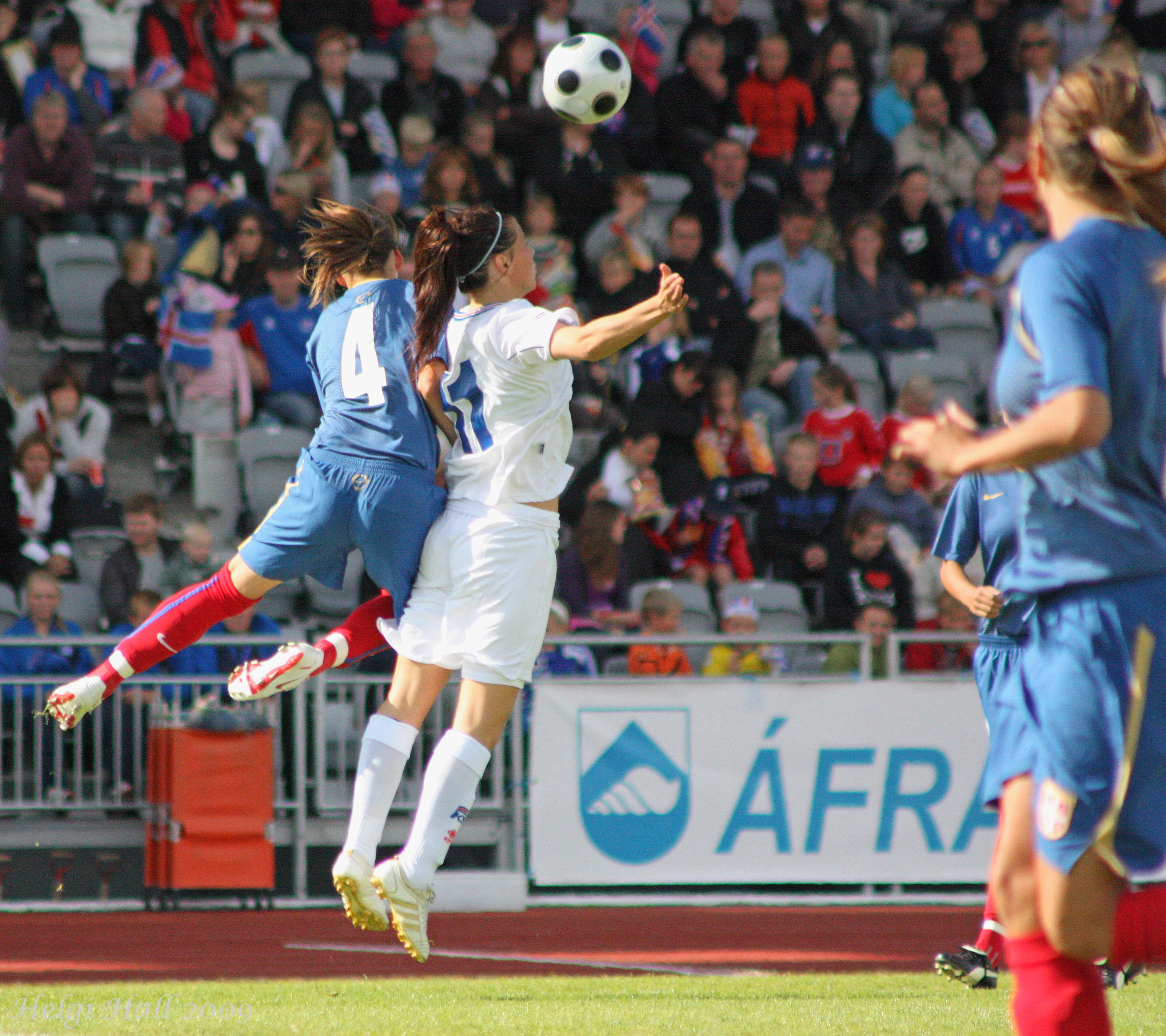 The 2011 FIFA Women's World Cup qualification UEFA Group 1 is a UEFA qualifying group for the 2011 FIFA Women's World Cup. The group comprises France, Iceland, Serbia, Northern Ireland, Croatia and Estonia. It is the only six-team group (the other seven having only five teams each).